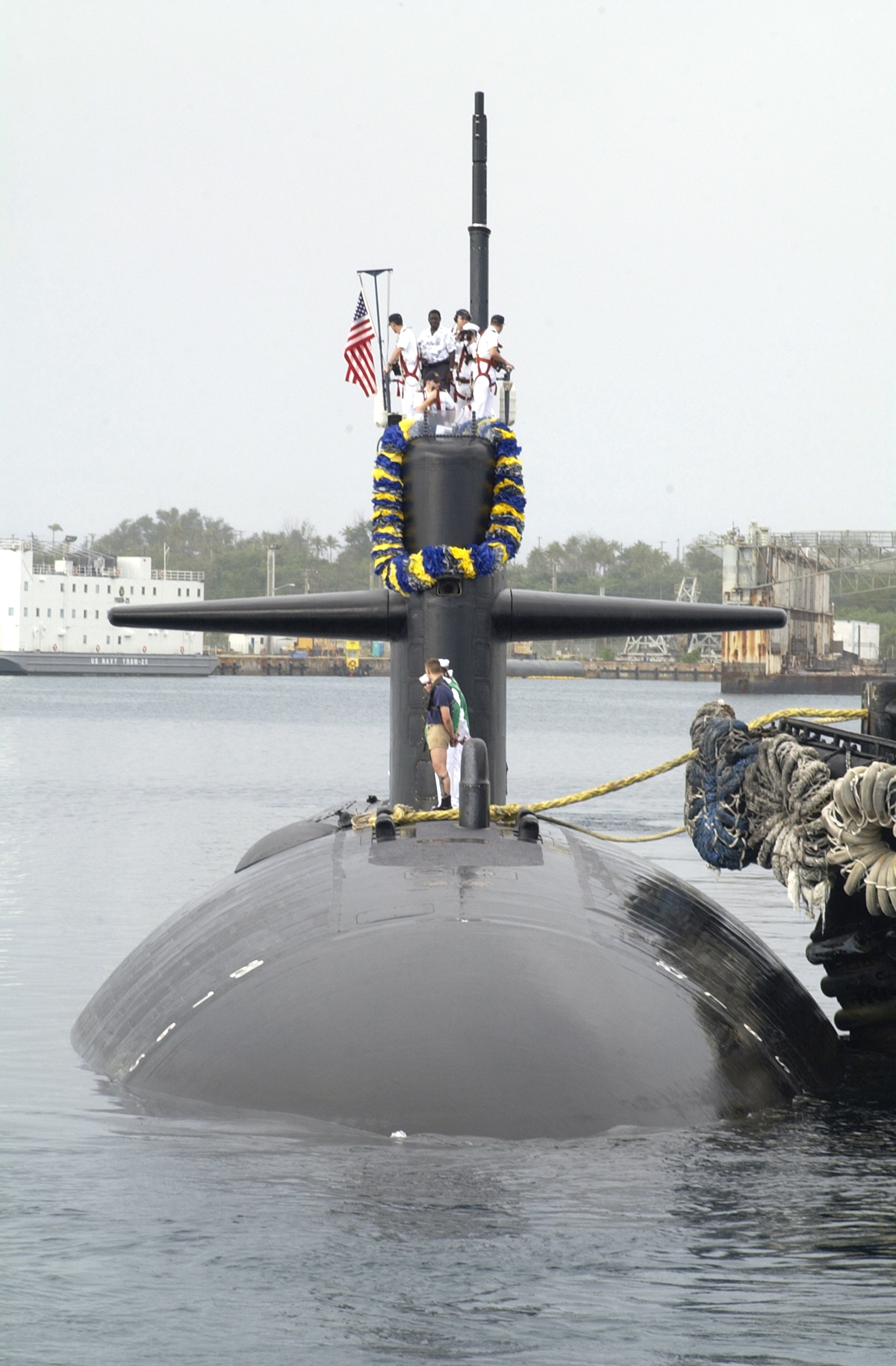 Santa Rita, Guam (Dec. 24, 2004) - The nuclear-powered Los Angeles-class fast attack submarine USS Houston (SSN 713) prepares to tie up at Polaris Point on Naval Base Guam. The Houston and its families have moved from Bremerton, Washington, to the sub’s new homeport in the U.S. territory of Guam. The Houston is the third Los Angeles-class submarine to be forward deployed at Guam with Submarine Squadron Fifteen. U.S. Navy photo by Photographer's Mate 2nd Nathanael T. Miller (RELEASED)